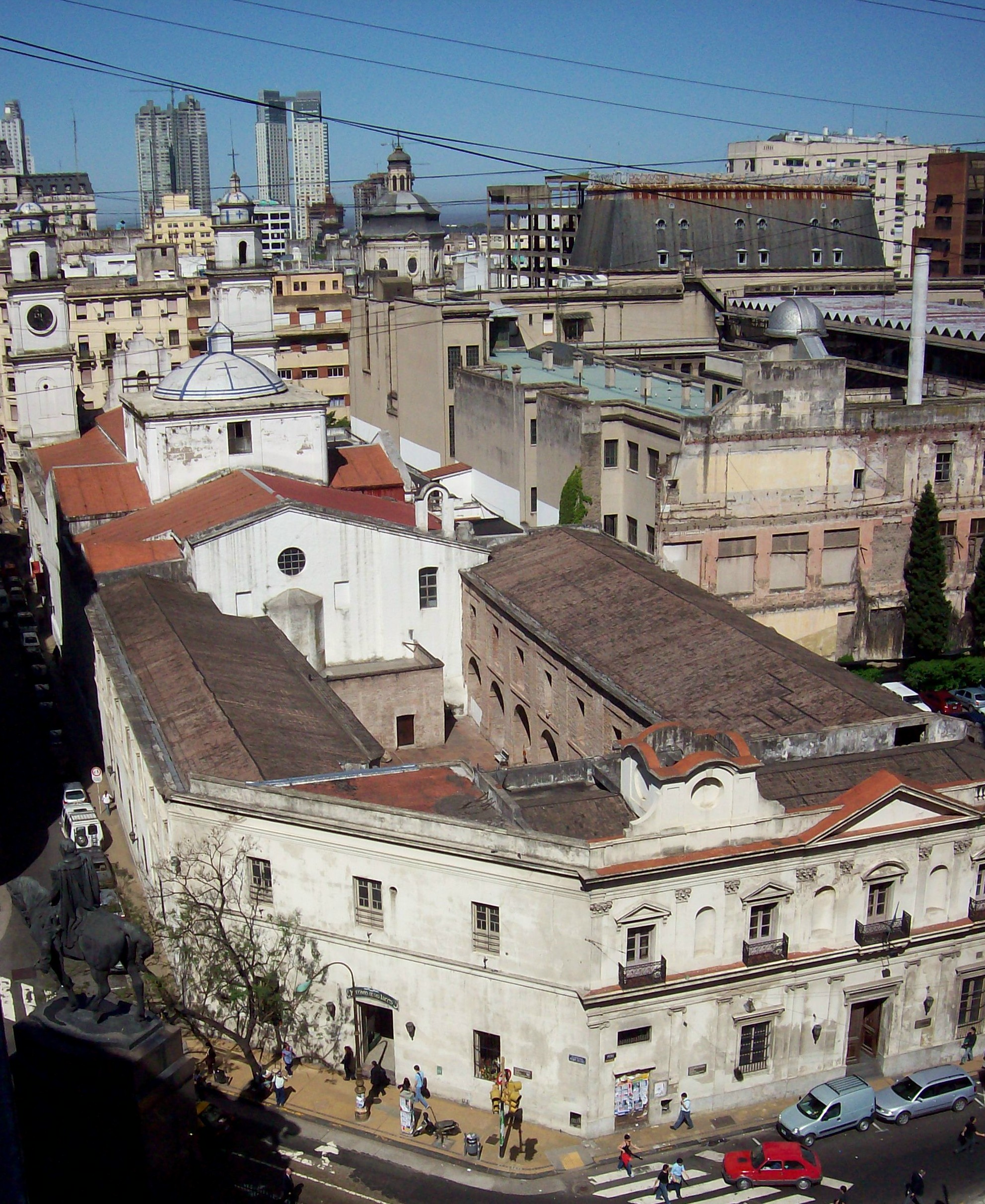 Manzana de las Luces, in "Barrio de Monserrat", Buenos Aires, near Plaza de Mayo. NW corner (Perú, Alsina y Julio Argentino Roca)